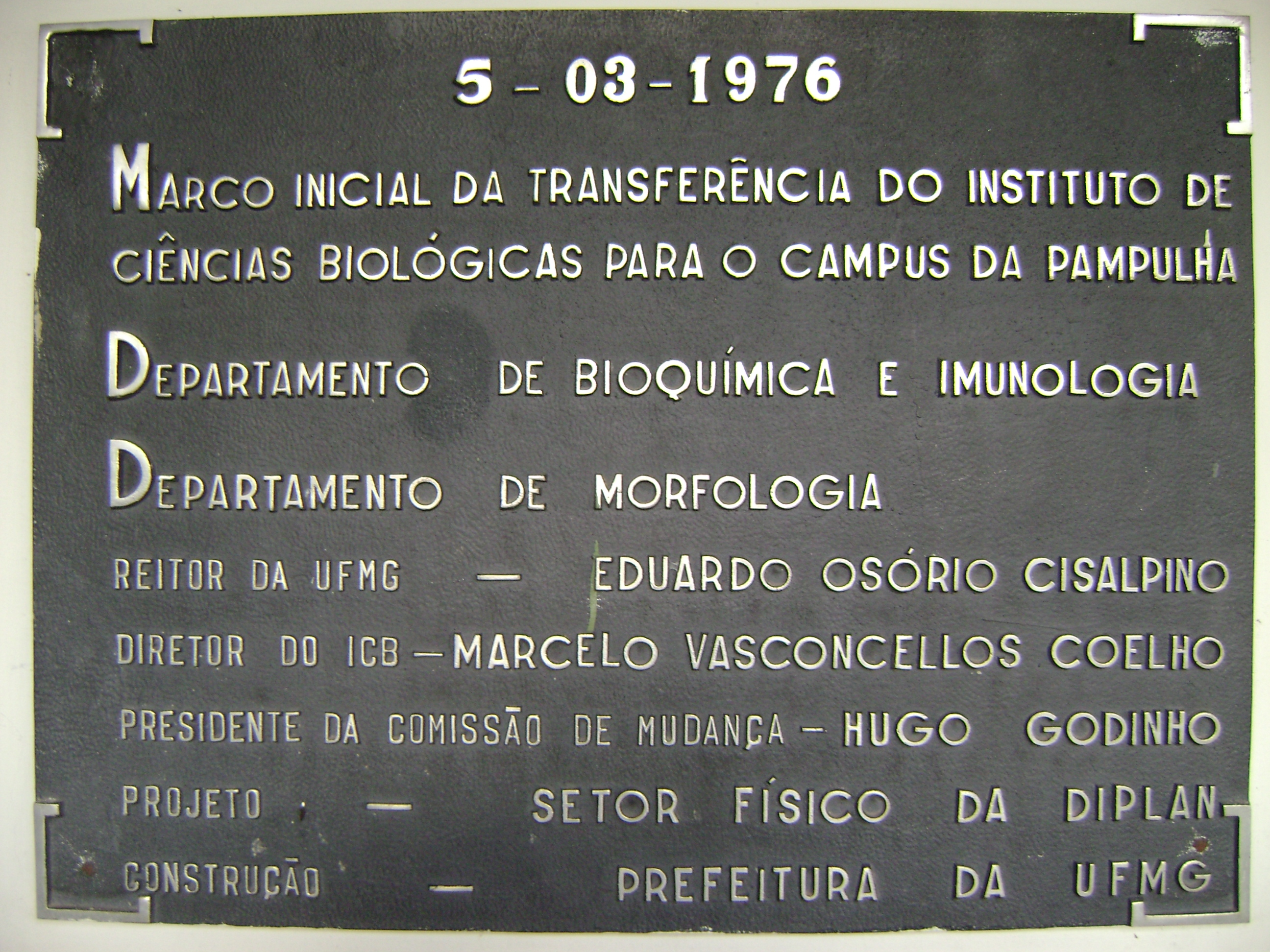 Inscrição indicativa de trasferência do ICB para o campus Pampulha da UFMG.